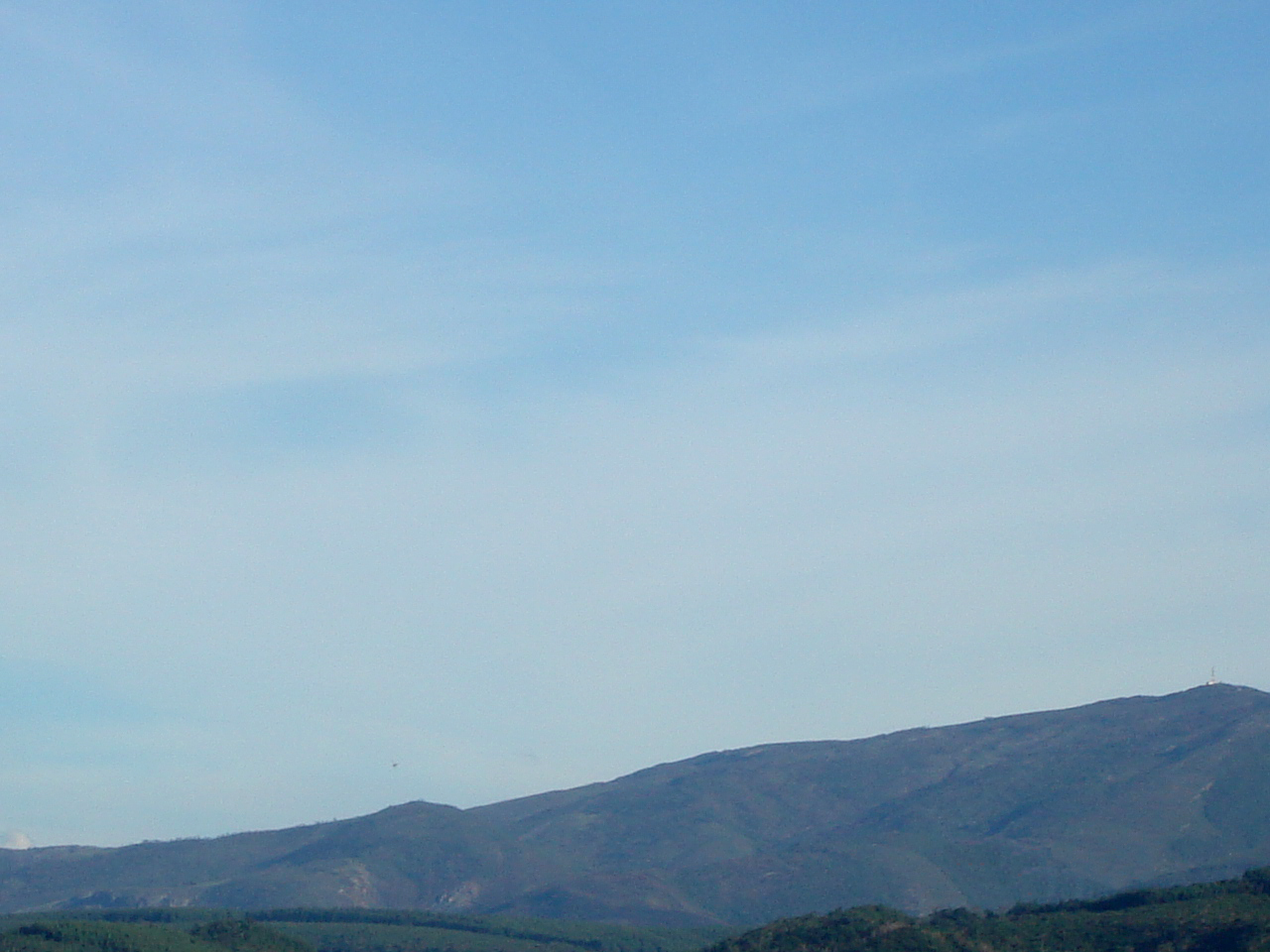 State Park Serra Negra in Itamarandiba-Brazil